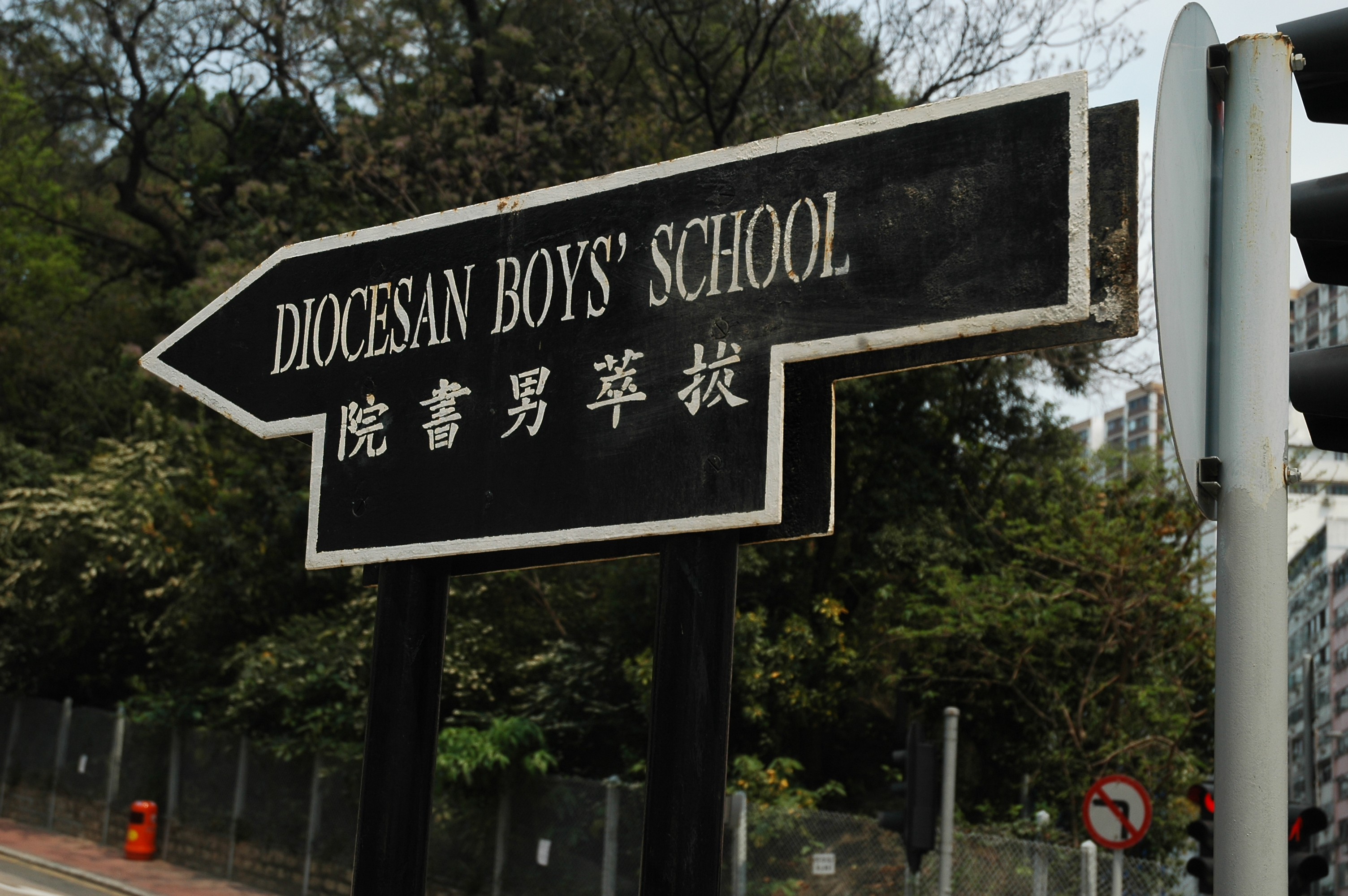 Sign saying "Diocesan Boys School"